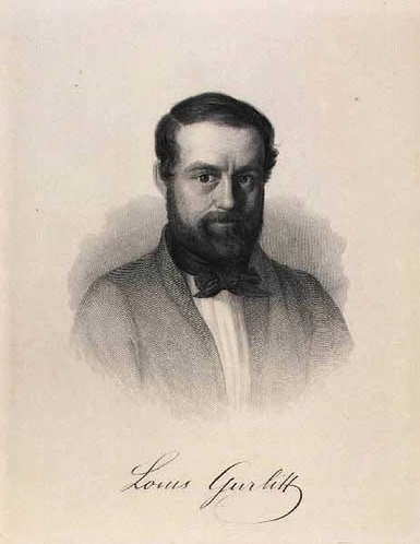 Heinrich Louis Theodor Gurlitt (8 March 1812 – 19 November 1897), also called Louis Gurlitt, was a Danish-German painter